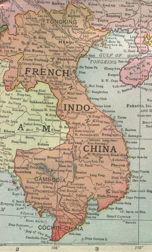 A map of French Indochina prior to the First World War. Unfortunately there is part of western Laos which is cut off in this scan.